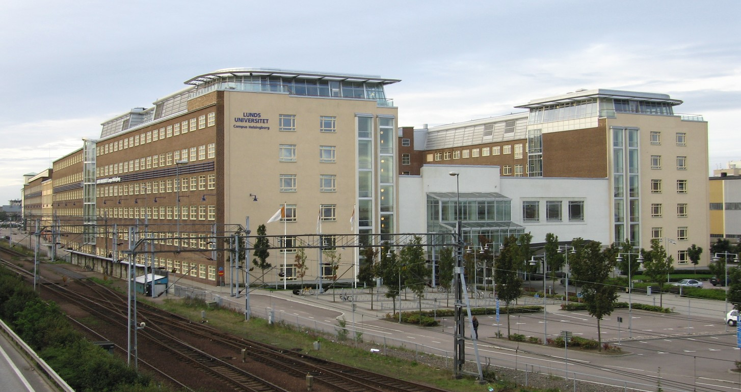 Former production hall of rubber producer Tretorn, Sweden. Now housing Lund University, Helsingborg campus, and offices.